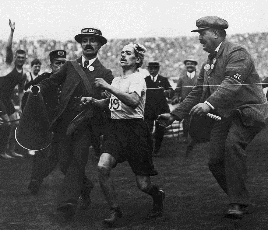 Dorando Pietri of Italy, on the verge of collapse, is helped across the finish line in the Marathon event of the Olympic Games in London, 24th July 1908. He was subsequently disqualified and the title was given to John Hayes of the USA.